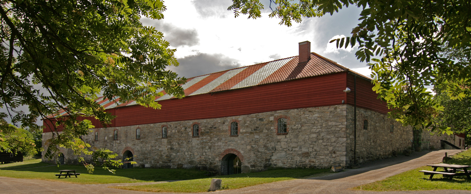 Storhamar barn, facade towards west and north. Oldest parts medieval; rebuilt as museum building by architect Sverre Fehn 1967-1969.